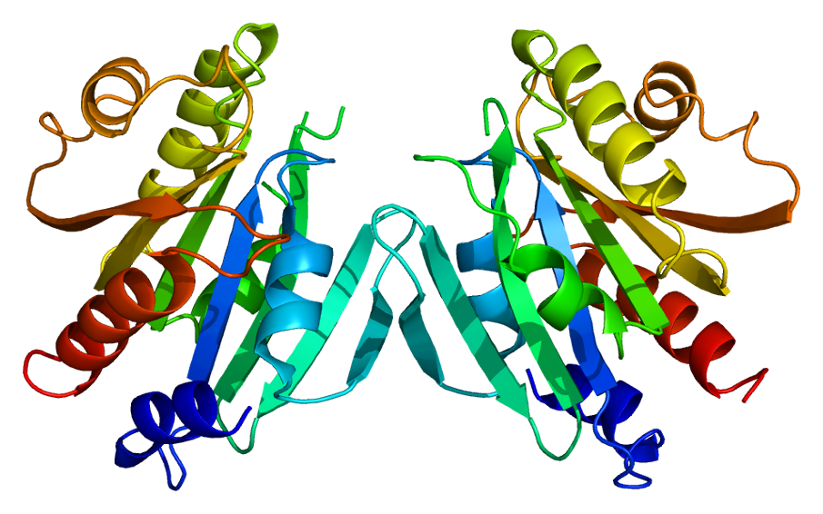 Structure of the ARF1 protein. Based on PyMOL rendering of PDB 1hur.